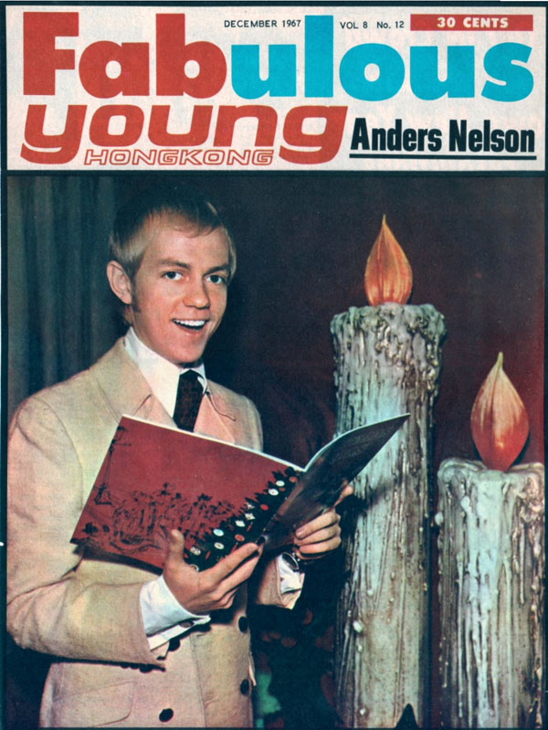 Cover